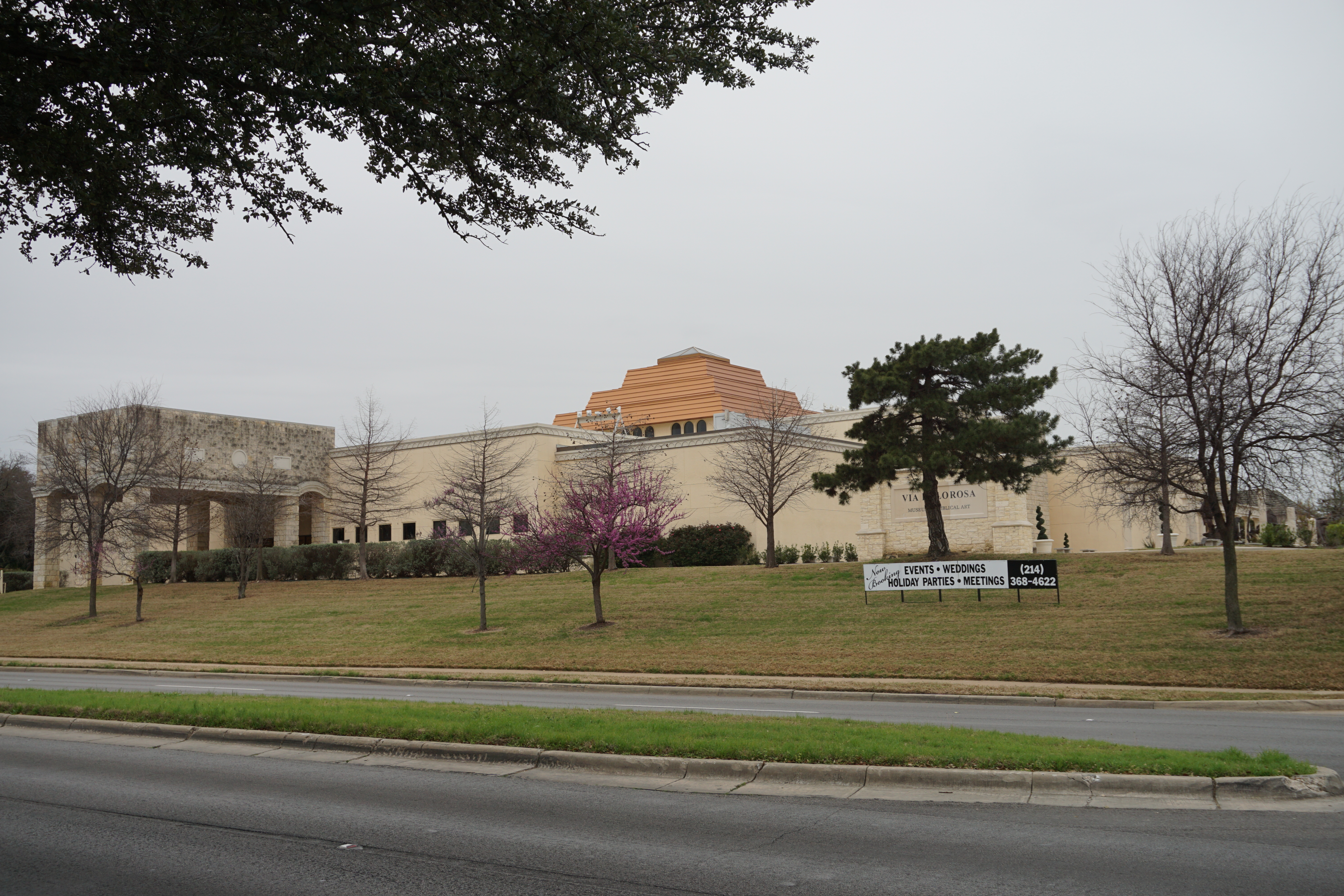 The exterior of the Museum of Biblical Art in Dallas, Texas (United States).